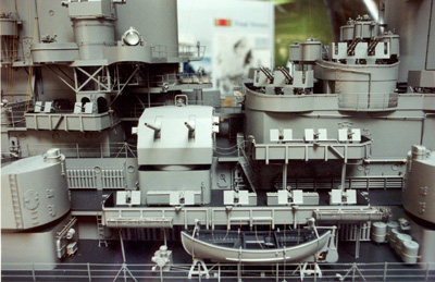 Detail photograph of a US Government owned model of the USS MISSOURI (BB-63) shown at the Washington Navy Yard Museum, Washington, D.C.